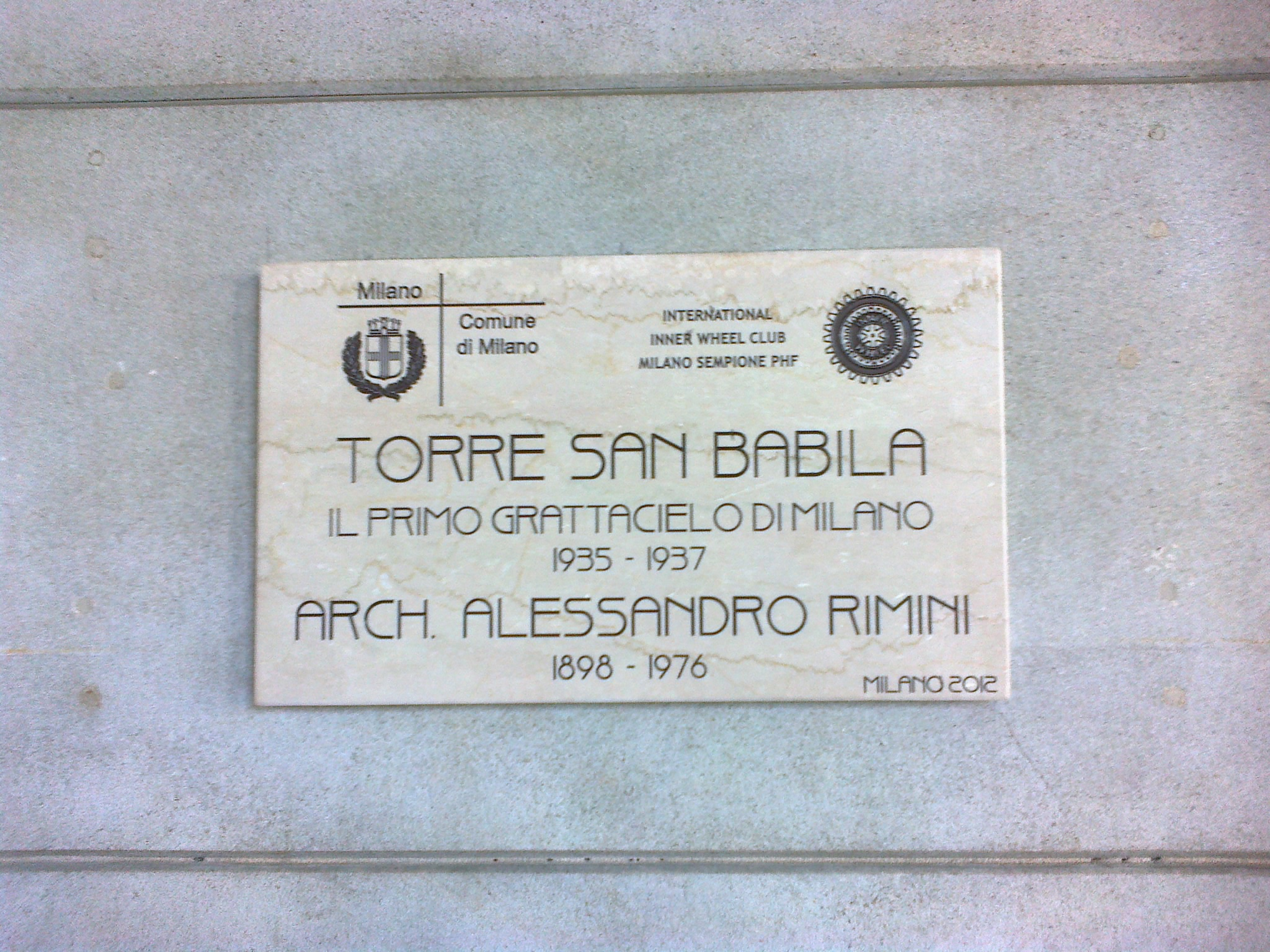 Plate in memory of Arch. Alessandro Rimini on Snia Viscosa Tower in Piazza San Babila, Milan, Italy